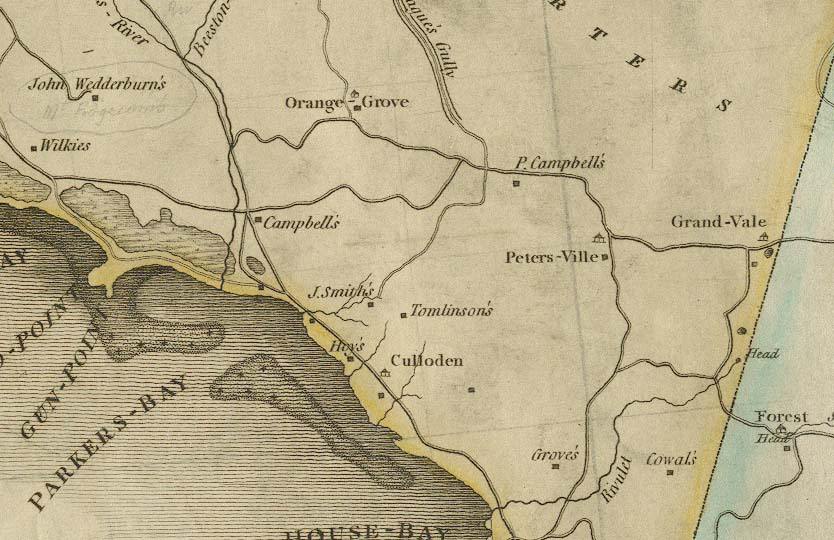 Late 18th or early 19th Century map of Cumberland Valley, Jamaica